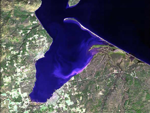 The raw satellite imagery shown in these images was obtain from NASA and/or the US Geological Survey. Post-processing and production by